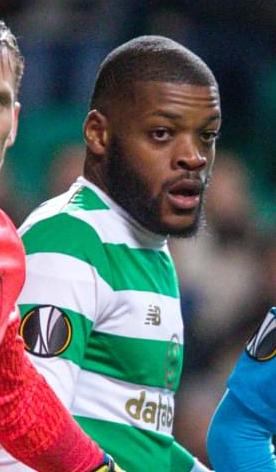 16.02.2018. Великобритания, Глазго, «Селтик Парк». Лига Европы УЕФА 2017/18, «Селтик» — «Зенит».